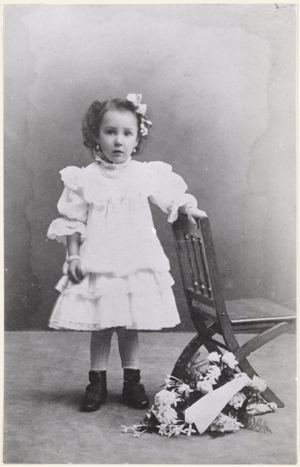 Anna Blaman (1905-1960) as a child, around 1910